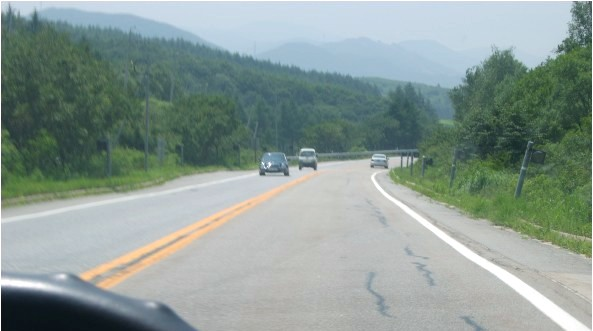 Near_Degwallyeong_IC_Old_Yeongdong_Expressway Pyeongchang County KOREA